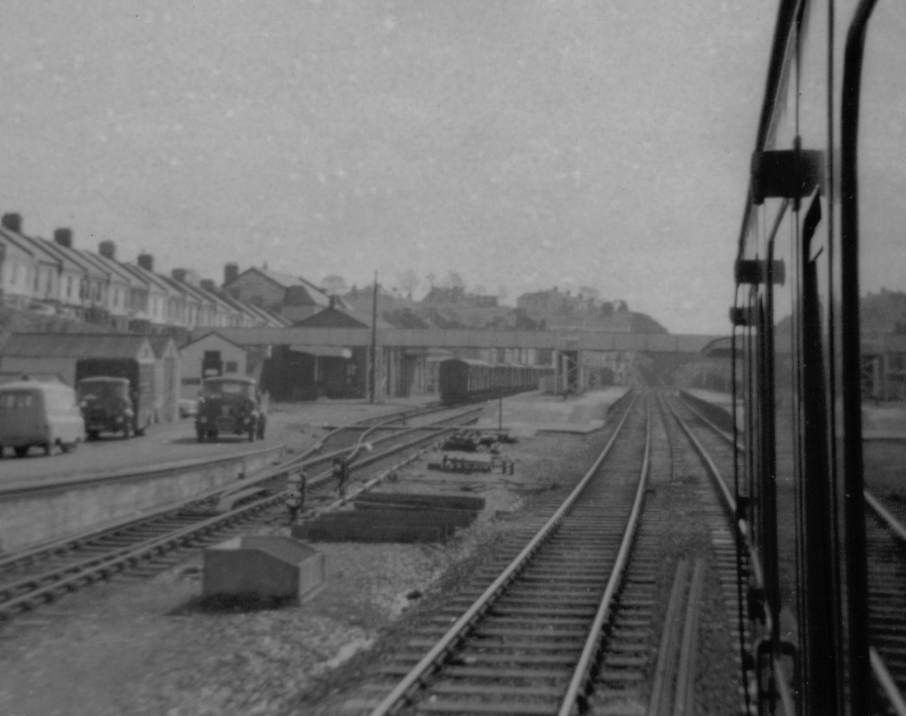 Keyham railway station, near Plymouth, England.